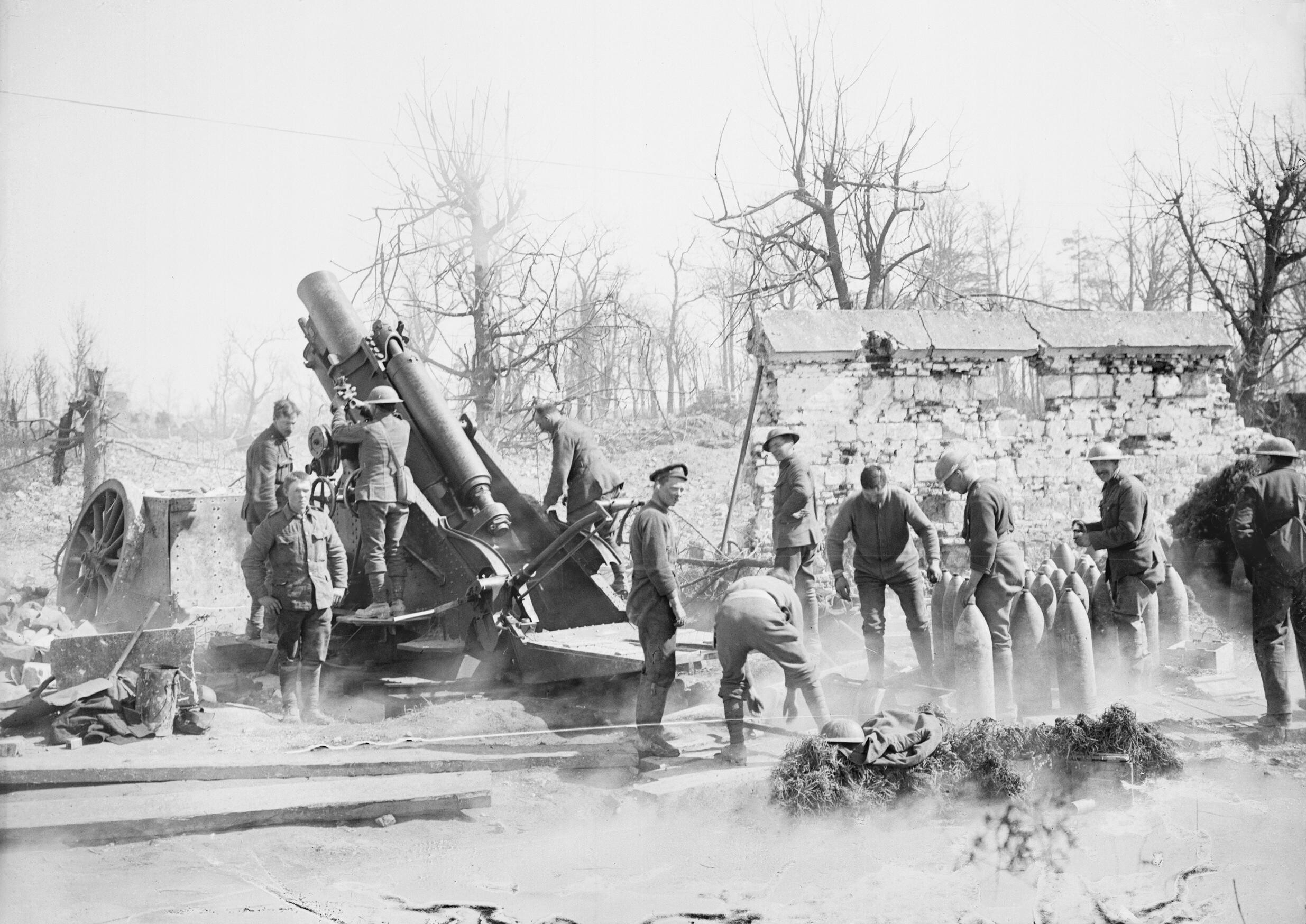 The Battle of Arras, April-may 1917 A 9.2 inch howitzer of the Royal Garrison Artillery in action in the ruins of Tilloy-les-Mofflaines.